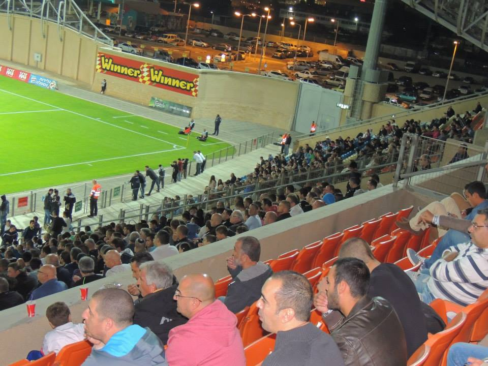 אצטדיו טוטו עכו מבט מלמעלה